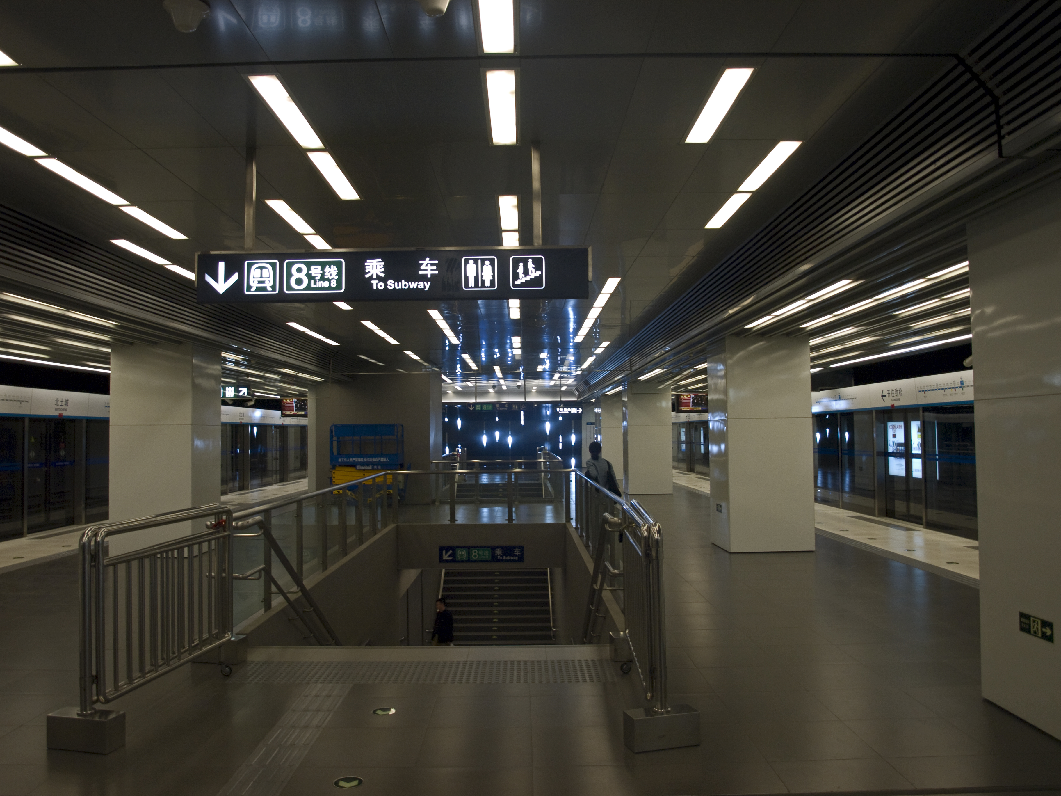 Beitucheng station (line 10), Beijing Subway